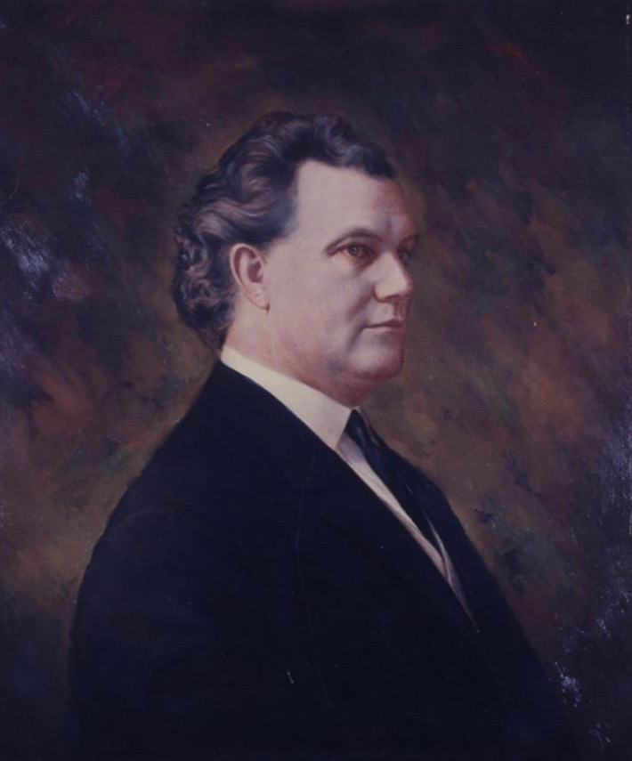 Collection: Governors Portraits photograph collection Call number: PI/1989.0008 System ID: 98798. Link to the catalog Governor Earl Leroy Brewer, Jan. 16, 1912 to Jan. 18, 1916. Please see our profile page for information on ordering. Scanned as tiff in 2008/05/15 by MDAH. Credit: Courtesy of the Mississippi Department of Archives and History